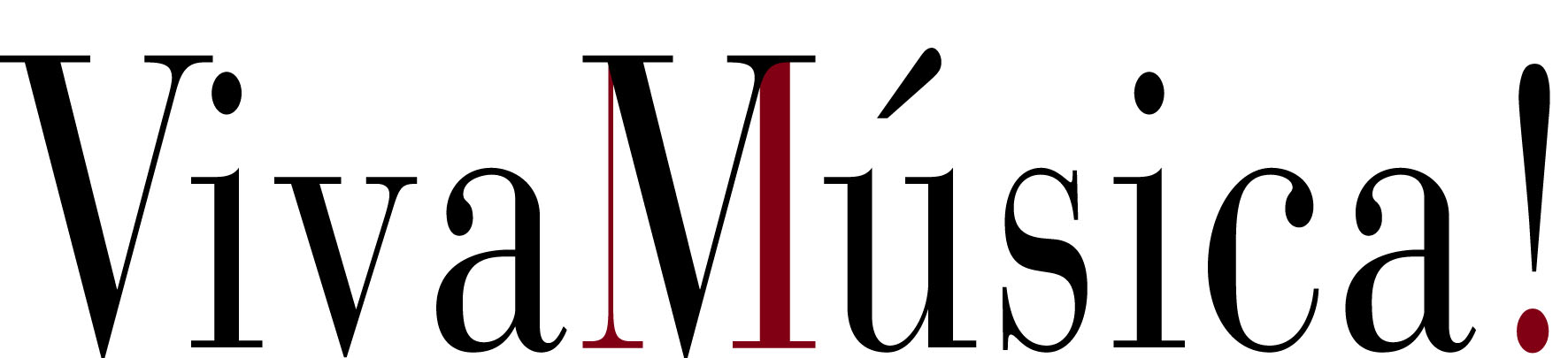 VivaMusica!'s logo